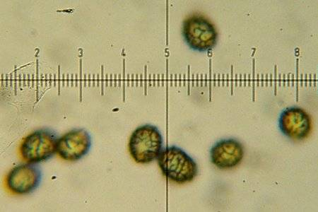 The spores of the milk mushroom Lactarius alnicola. Notes: "1000x, 10 divisions are 9.75 microns, IKI stain"